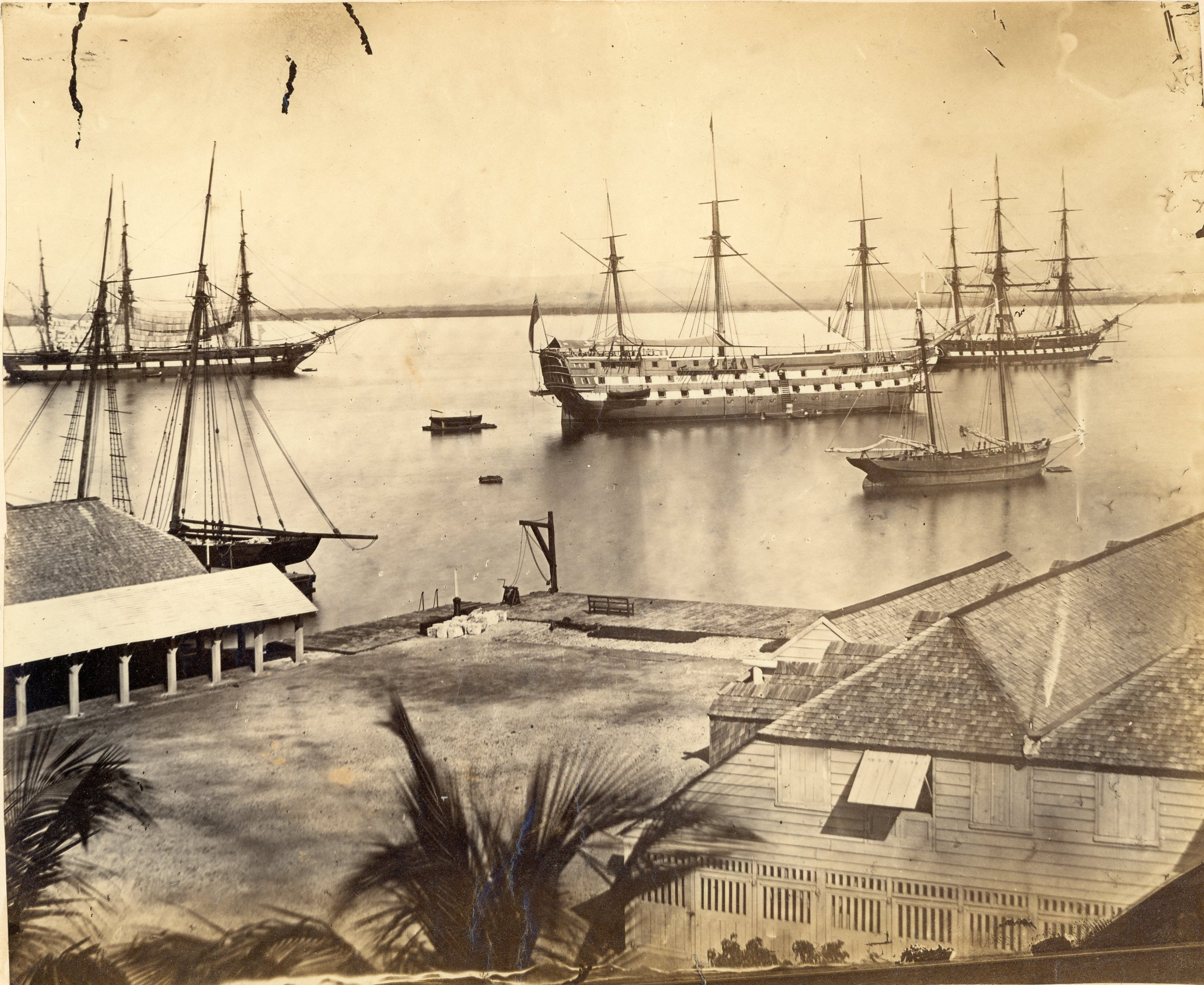 Example of a 90-gun second-rate ship of the line of the Royal Navy launched in 1848.